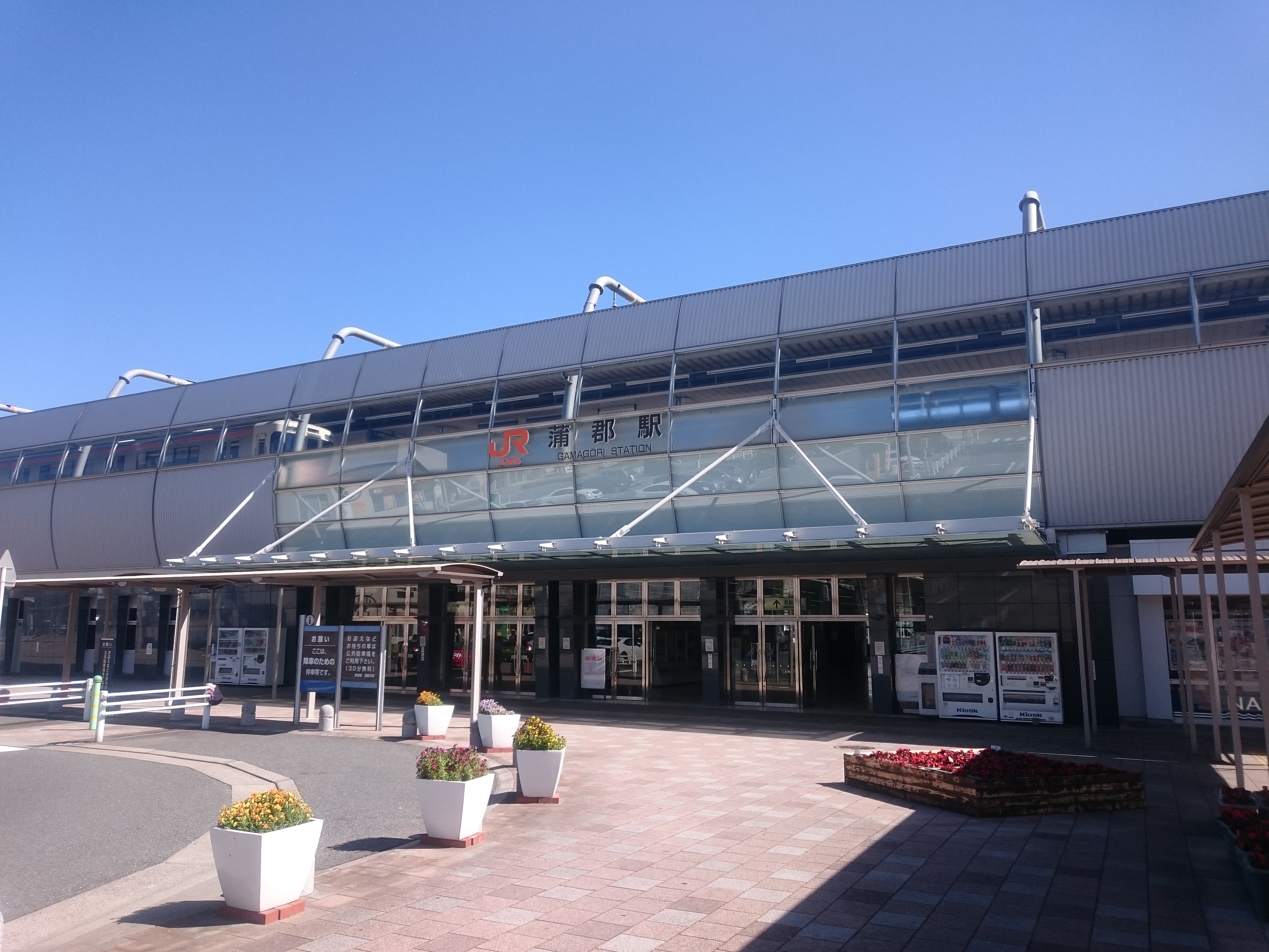 Gamagori Station (蒲郡駅), located in Gamagori, Aichi, Japan Sony Xperia Z3